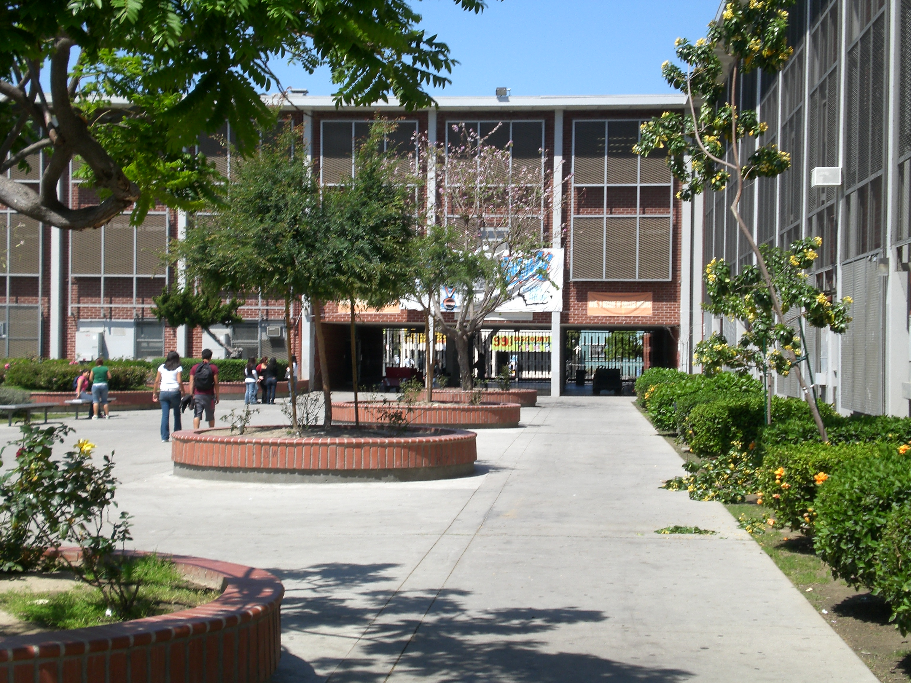 John C. Fremont High School